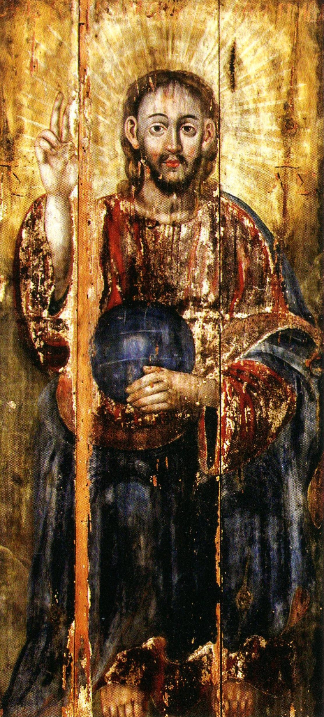 CHRIST PANTOCRATOR. 1739. Wood, tempera. St. Peter and Paul's Church, Makhro, Ivanava district, Brest region. Restoration - A. Shpunt, P. Zhurbey.